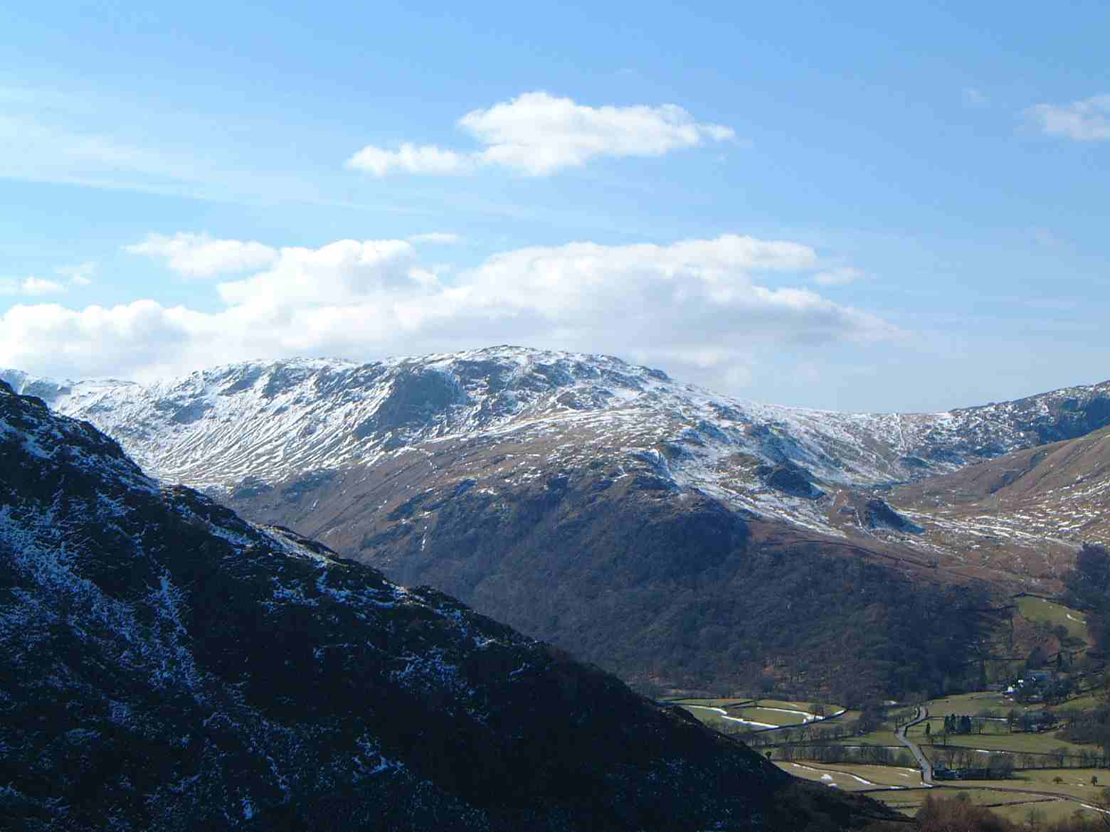 Grey Knotts seen from above the Stonethwaite valley Personal photograph taken by Mick Knapton in March 2006